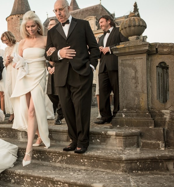 Steven and Lalage Rales at Gravenwezel, Antwerp